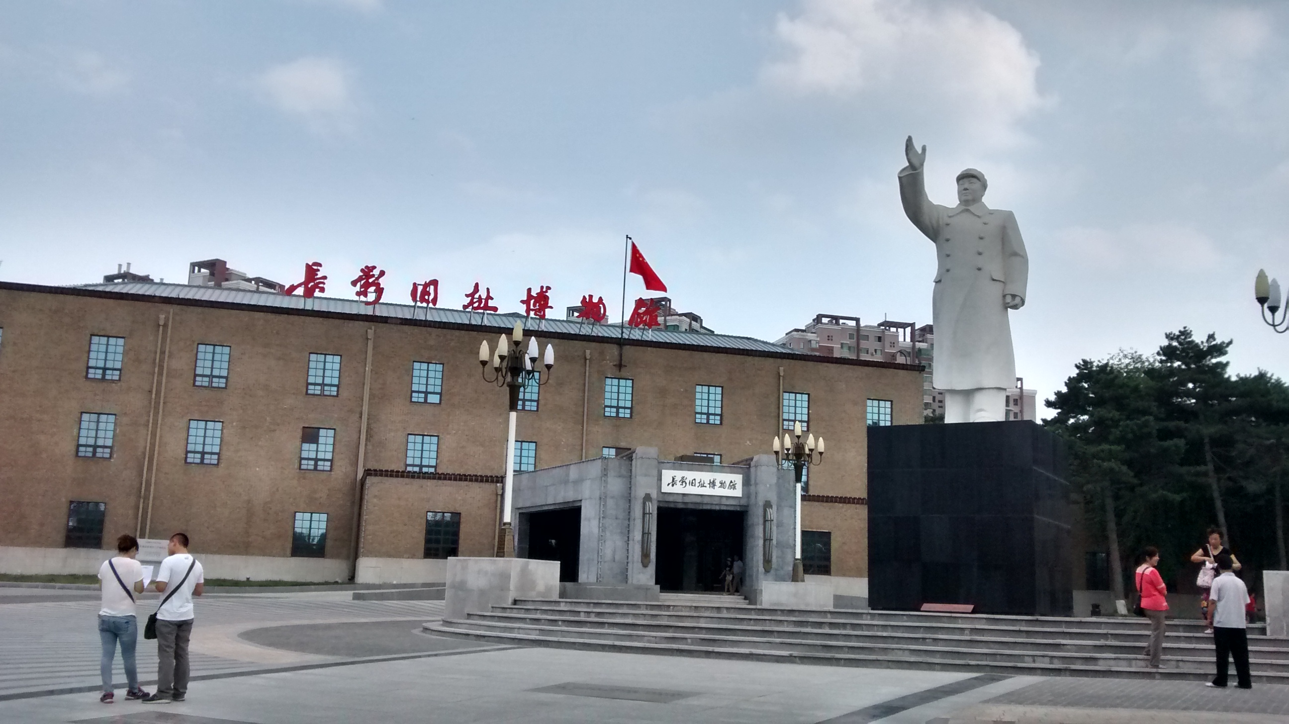 Mao Statue at Former Site Museum Of Changchun Film Studio 长影旧址博物馆